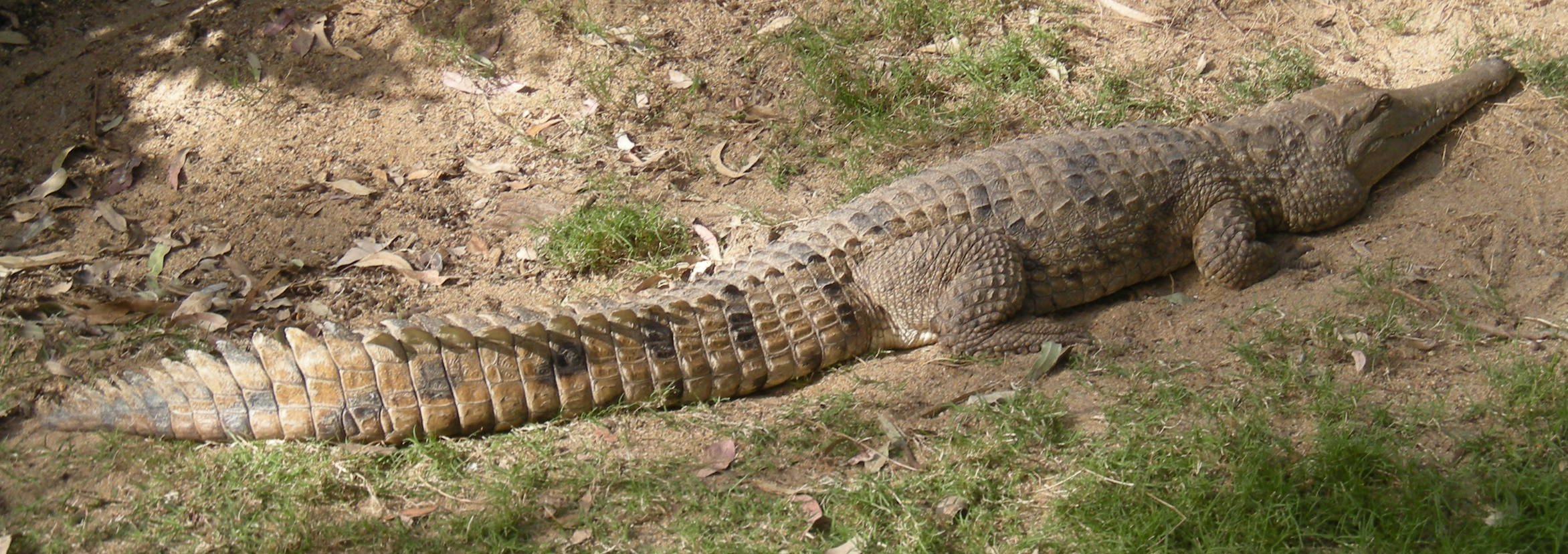 Crocodylus johnstoni